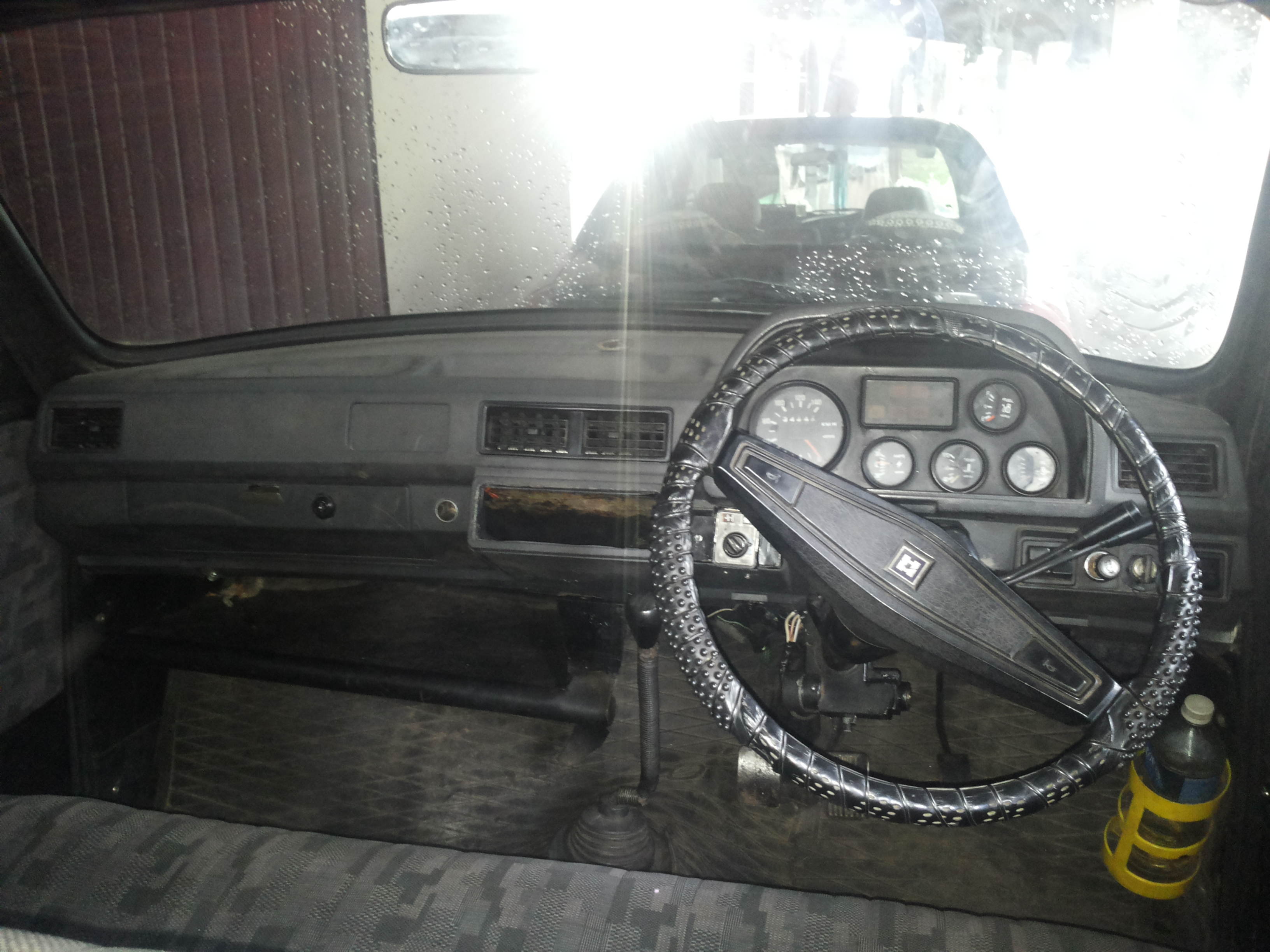 Ambassador Car (Nova, or perhaps a Classic)